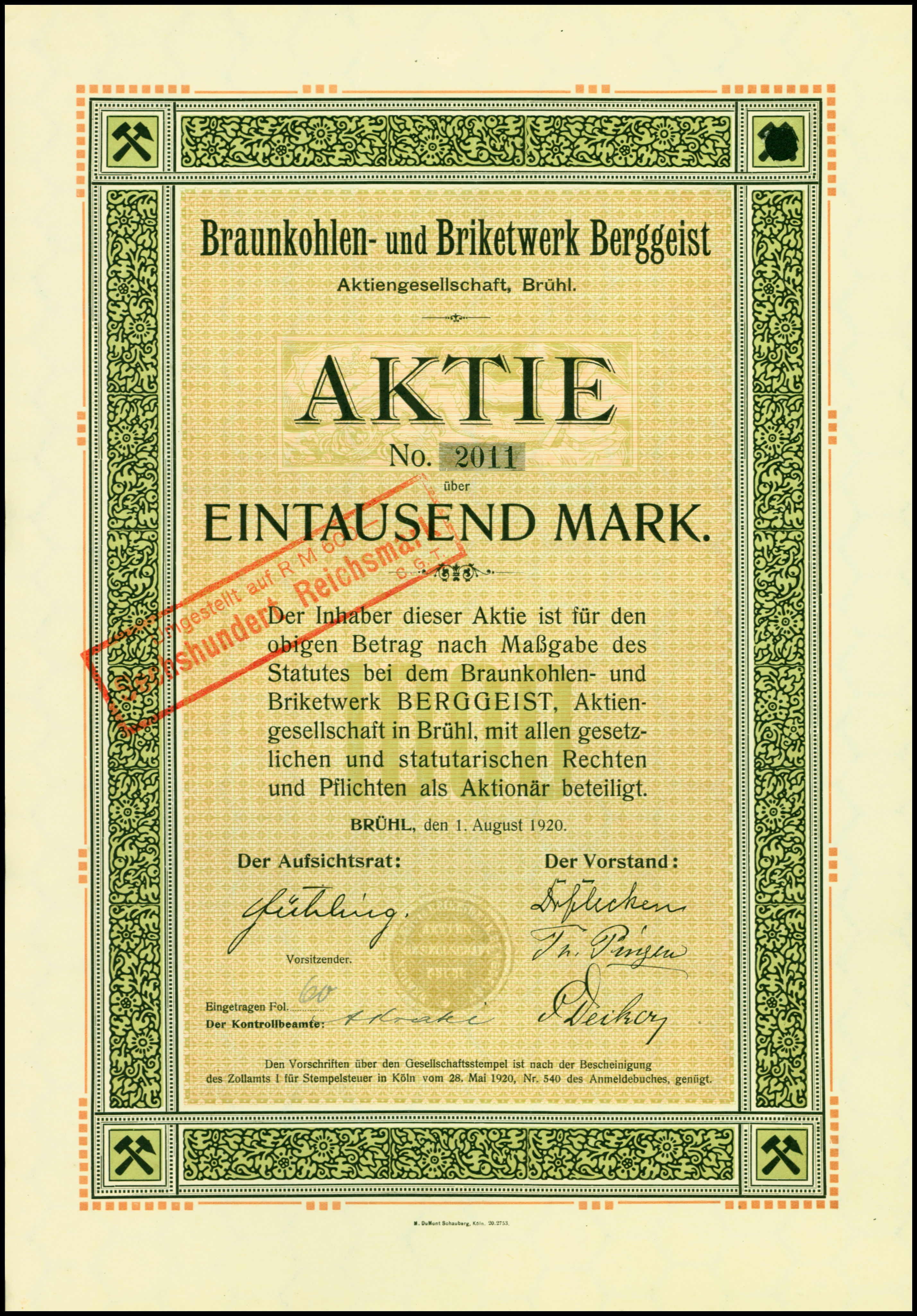 Share of the Braunkohlen- und Briketwerk Berggeist AG, issued 1. August 1920